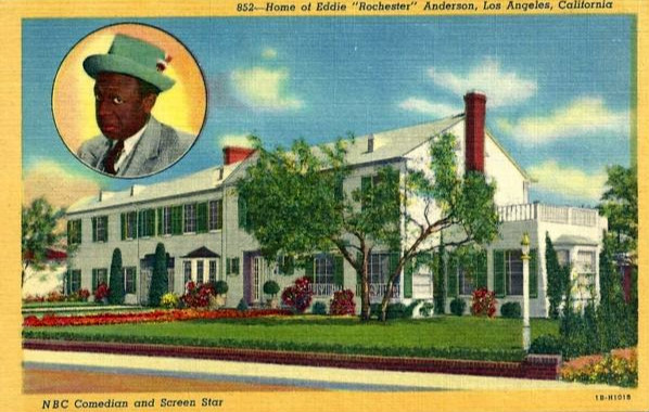 Postcard view of comedian Eddie Anderson's home in Los Angeles. This postcard was produced prior to 1978 and has no copyright markings. From the copy at card bottom re: NBC, this is most likely a mid 1940s postcard. It is definitely pre-1978.